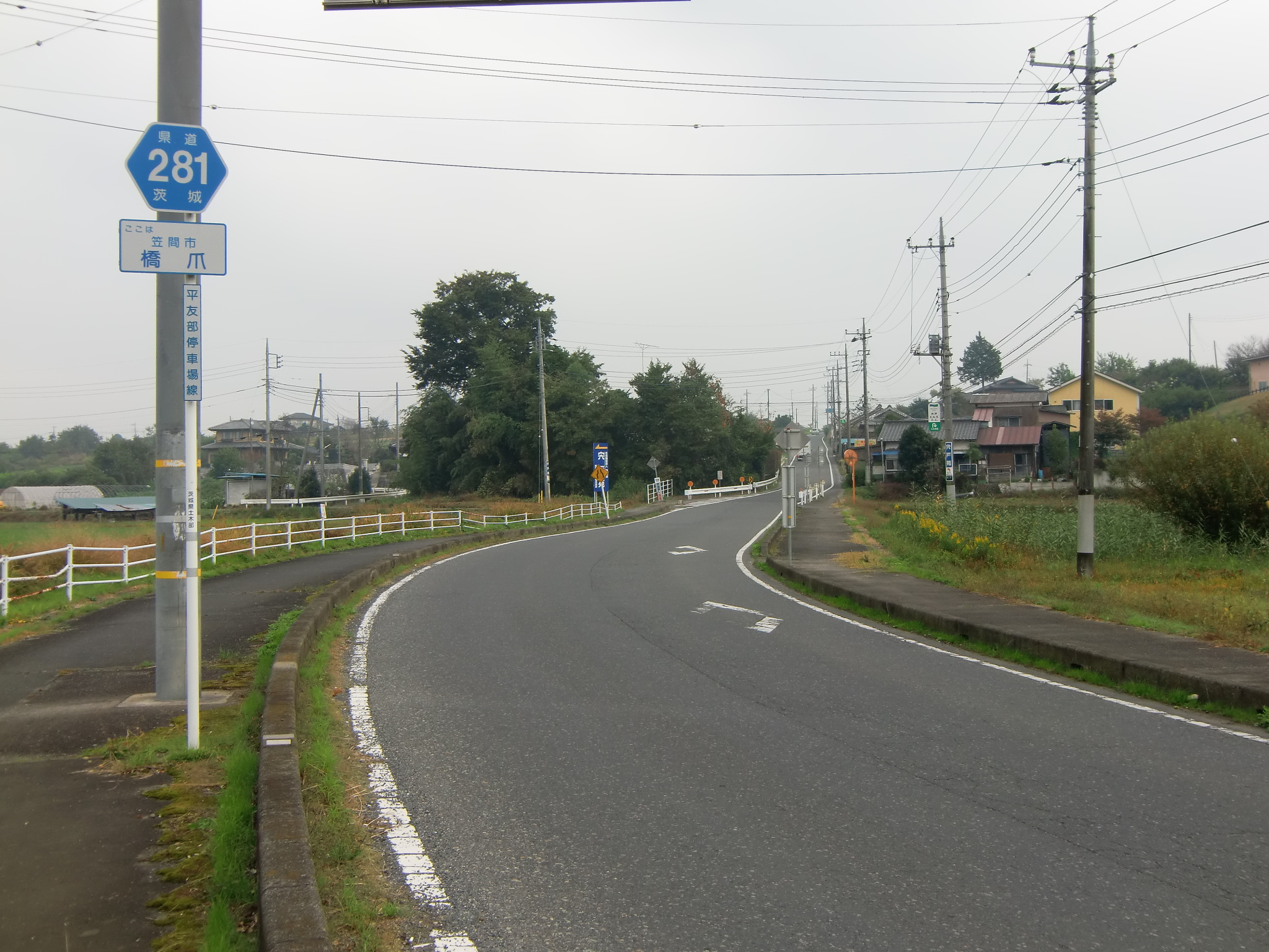 Ibaraki prefectural road 281(Taira-Tomobe Teishajo line) in Hashitsume, Kasama city, Ibaraki pref., Japan.